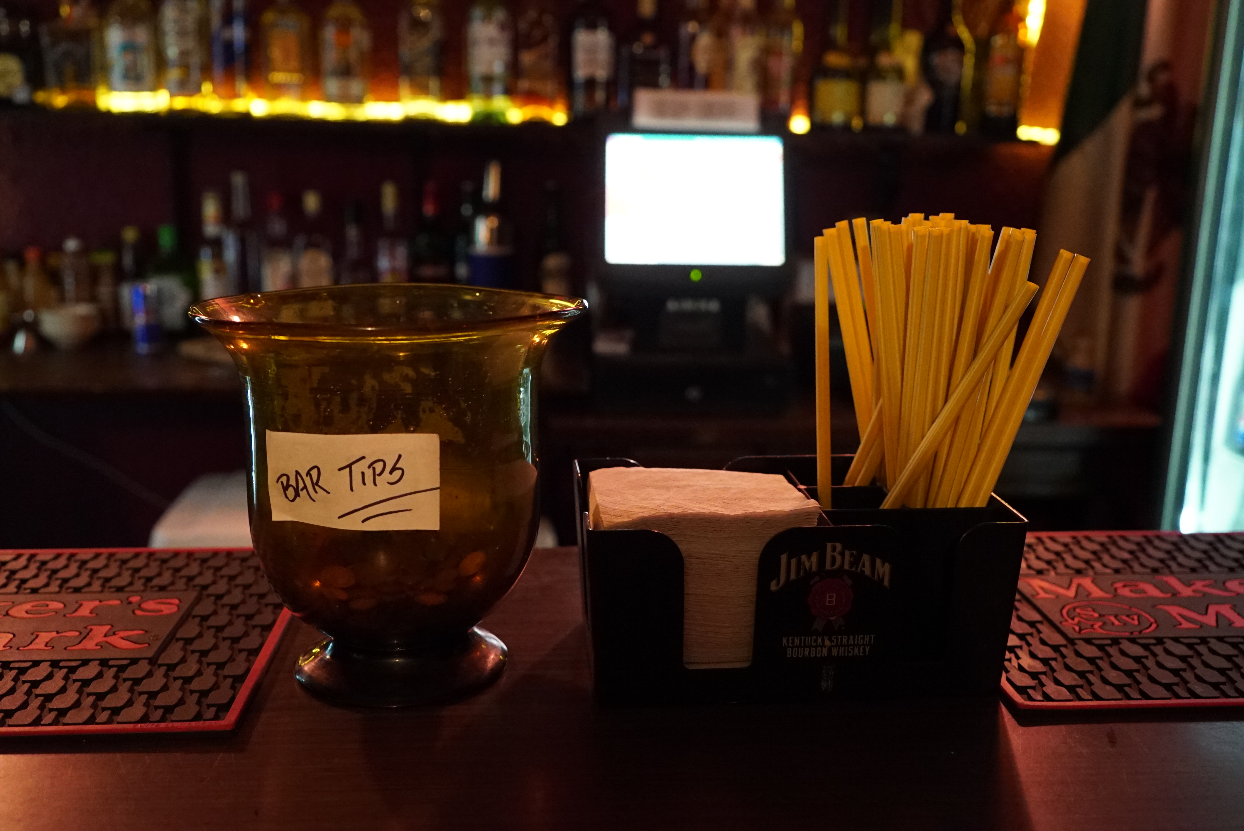 The jar where customers leave their tips next to the napkins and some straws in the bar counter